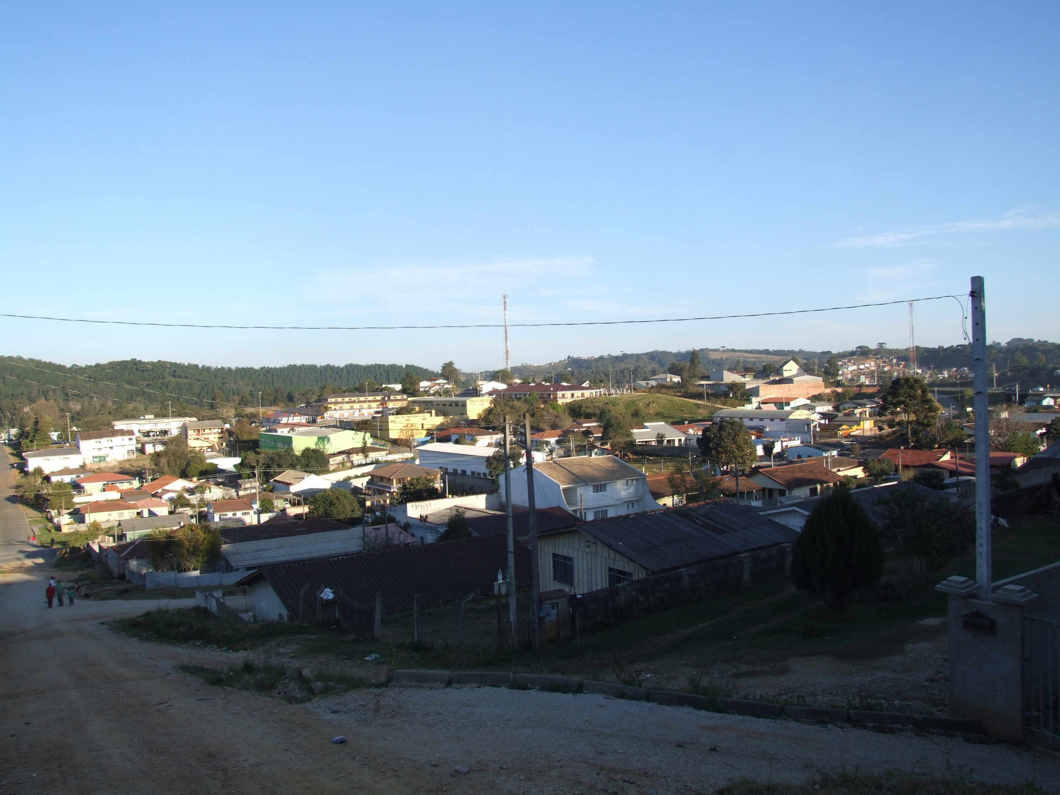 Almirante Tamandaré landscape